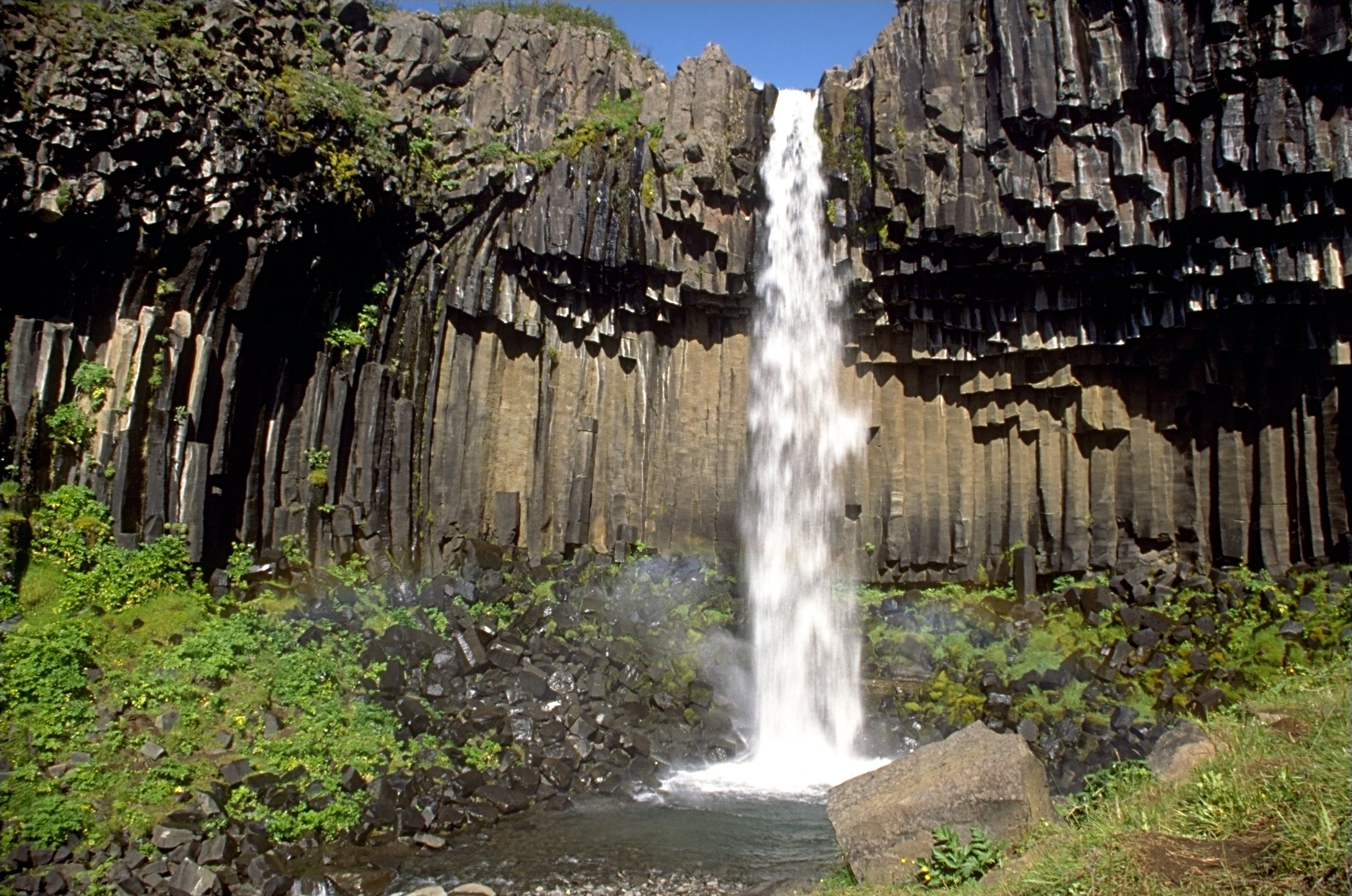 Svartifoss, Skaftafell national park, Iceland Photo was taken using the following technique: Film: Kodak Elite 100 Lens: 28-80 Filter: Body: Minolta 600si Support: Image with Information in English Bild mit Informationen auf Deutsch